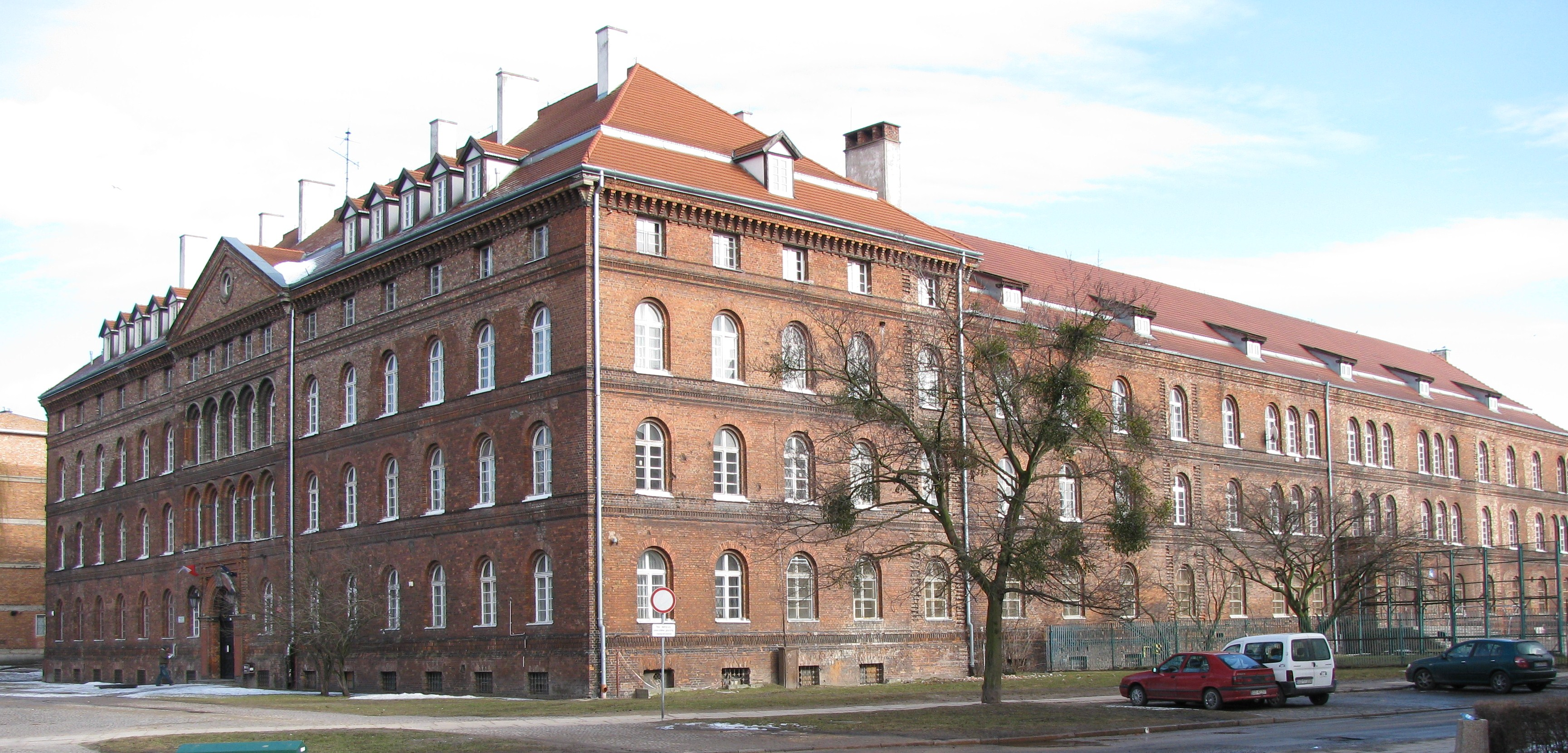 Pre-war Polish Post Office in Free City of Danzig (today Gdańsk, Poland).